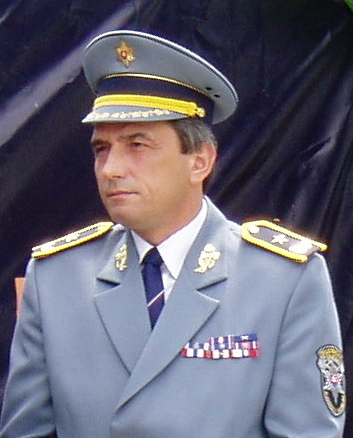 General Dr. JUDr. Tibor Gaplovský, current General Director og the Railway Police (in Slovakia)